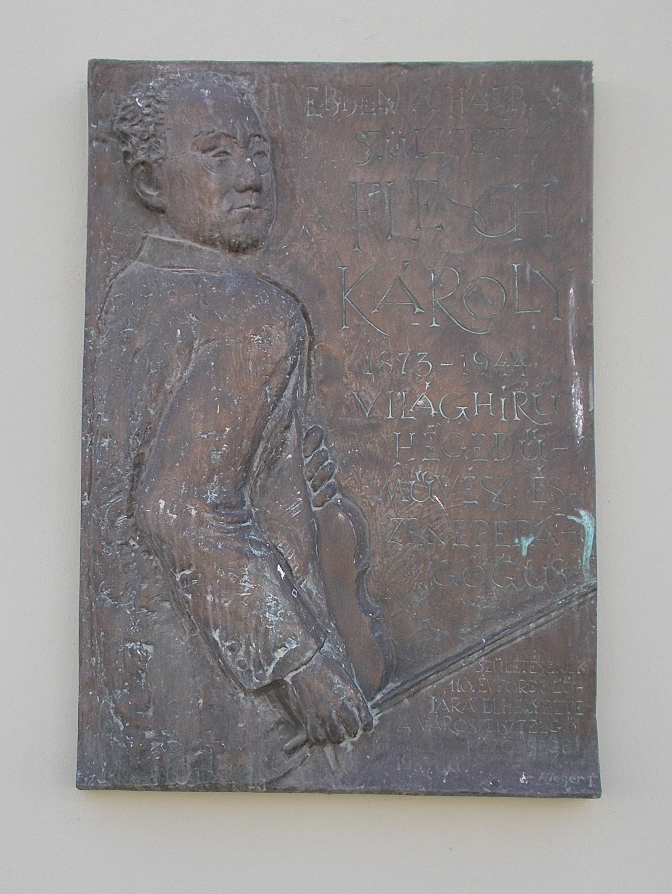 Listed building, 18th century, remodelled in Eclectic style. - 123 Szent István király Street, Moson neighborhood, Mosonmagyaróvár, Győr-Moson-Sopron County, Hungary.